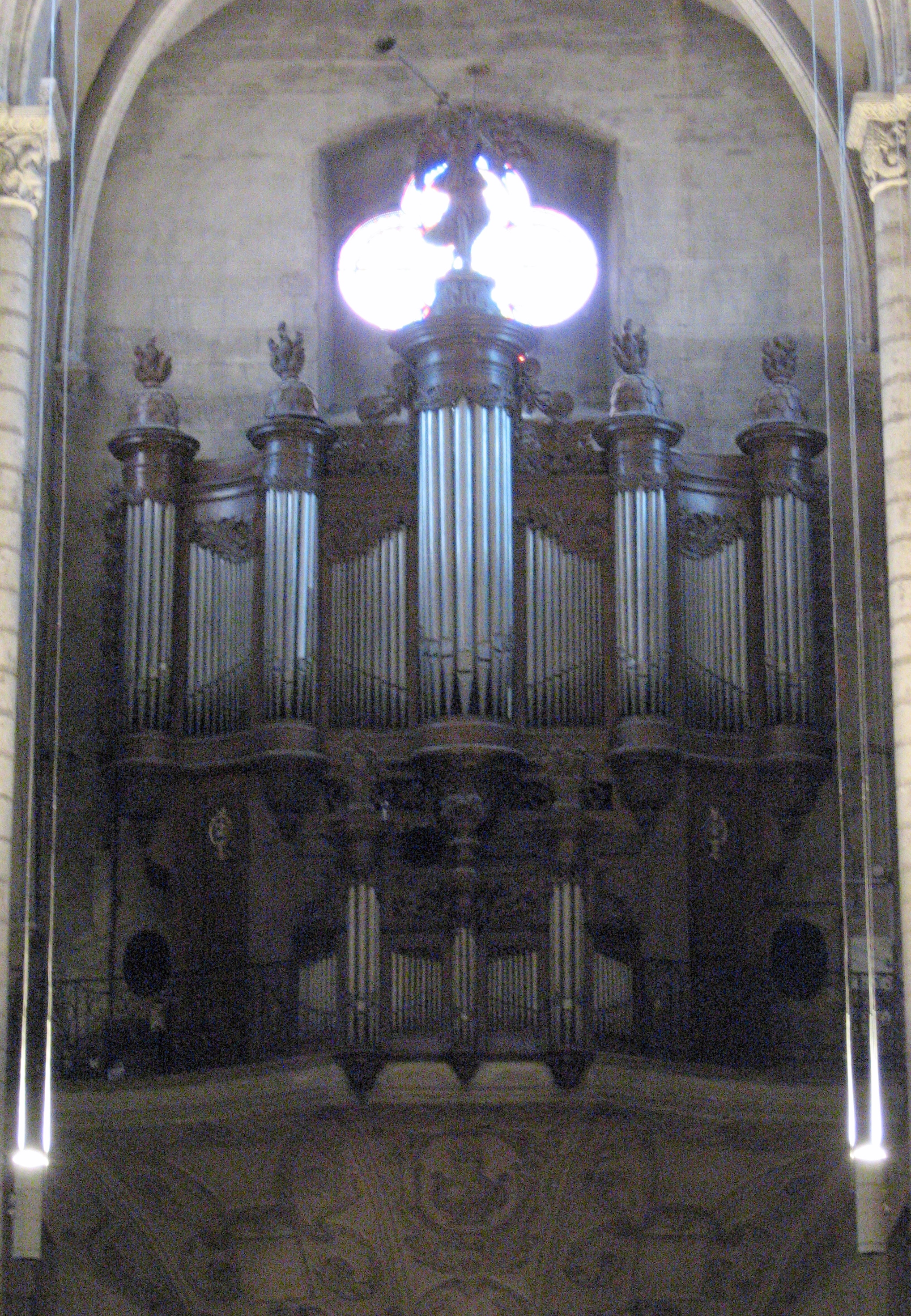 Organ of Saint-Salvy d'Albi, built by Maurice Puget (1931)